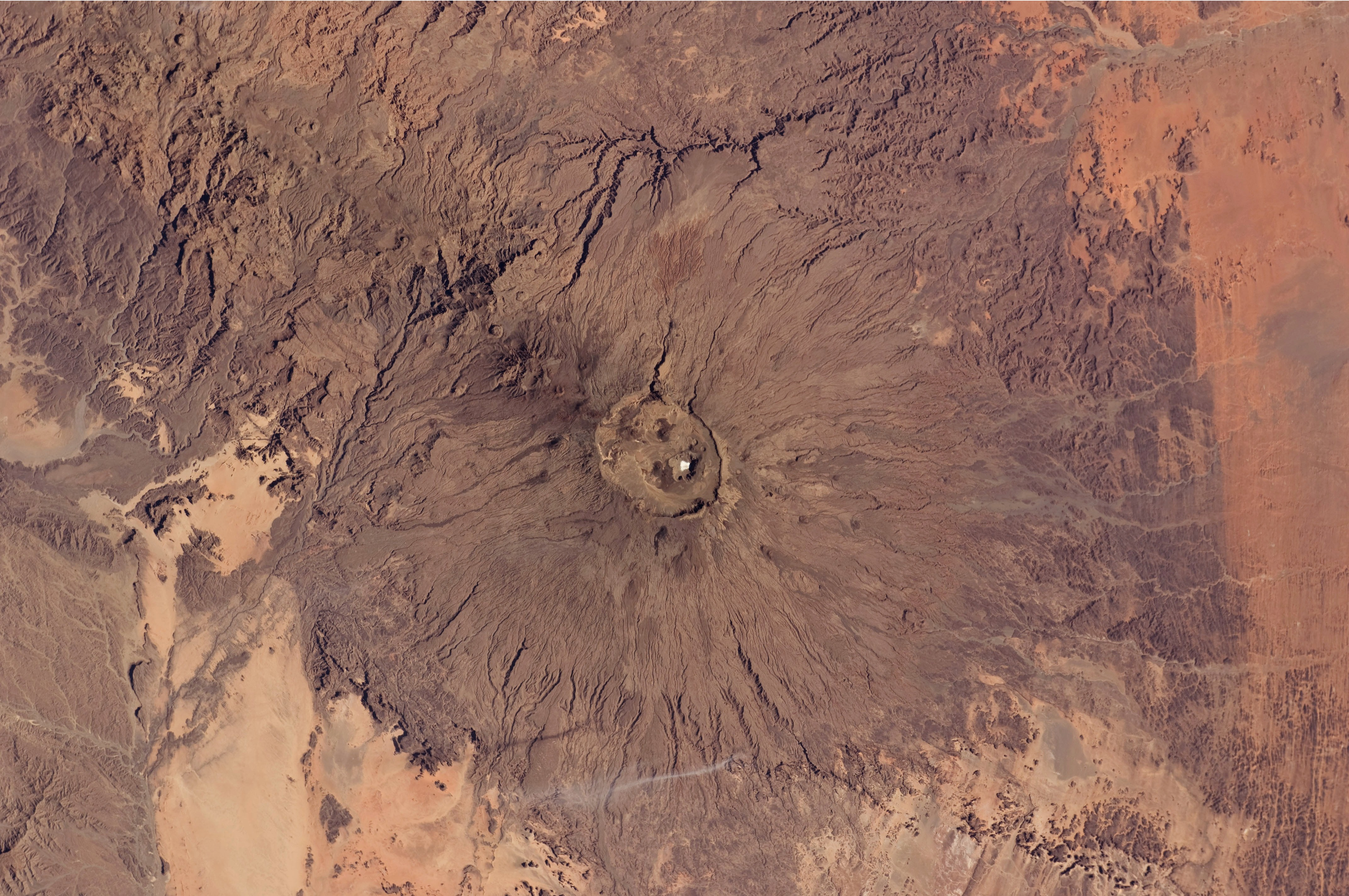 The broad Emi Koussi volcano is a shield volcano located in northern Chad, at the south-eastern end of the Tibesti Range. The dark volcanic rocks of the volcano provide a sharp contrast to the underlying tan and light brown sandstone exposed to the west, south, and east (image lower left, lower right, and upper right). This astronaut photograph highlights the entire volcanic structure. At 3,415 meters above sea level, Emi Koussi is the highest summit of Africa's Sahara region. The summit includes three calderas formed by powerful eruptions. Two older and overlapping calderas form a depression approximately 12 kilometres by 15 kilometres in area bounded by a distinct rim (image centre). The youngest and smallest caldera, Era Kohor, formed as a result of eruptive activity within the past 2 million years.